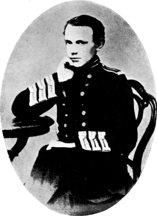 Peter Kropotkin in 1861. Posing in uniform.